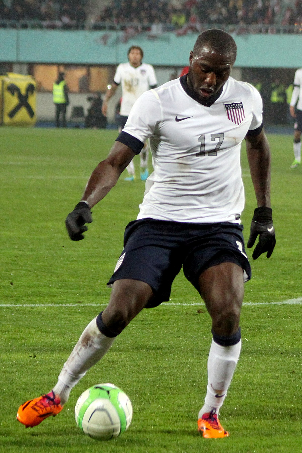 Friendly-match Austria vs. USA (1:0) in the Ernst-Happel-Stadion in Vienna at 2013-03-22. – The photo shows Jozy Altidore (USA).